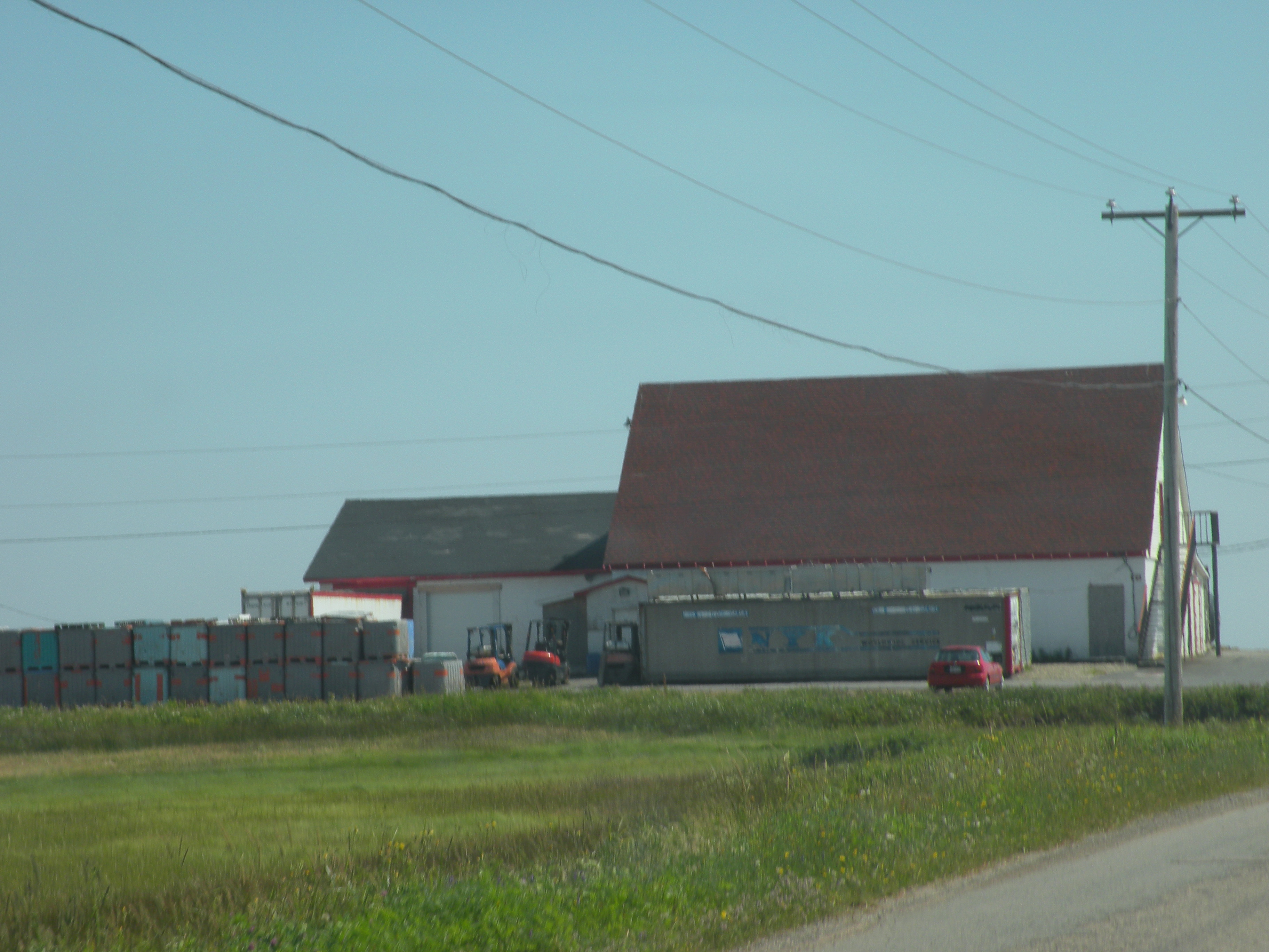 The fish plant in Le Goulet, New Brunswick, Canada.